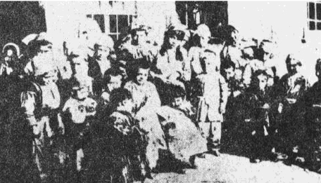 Turkish orphans in Erzincan, whom the parents had been killed by Armenian gangs.